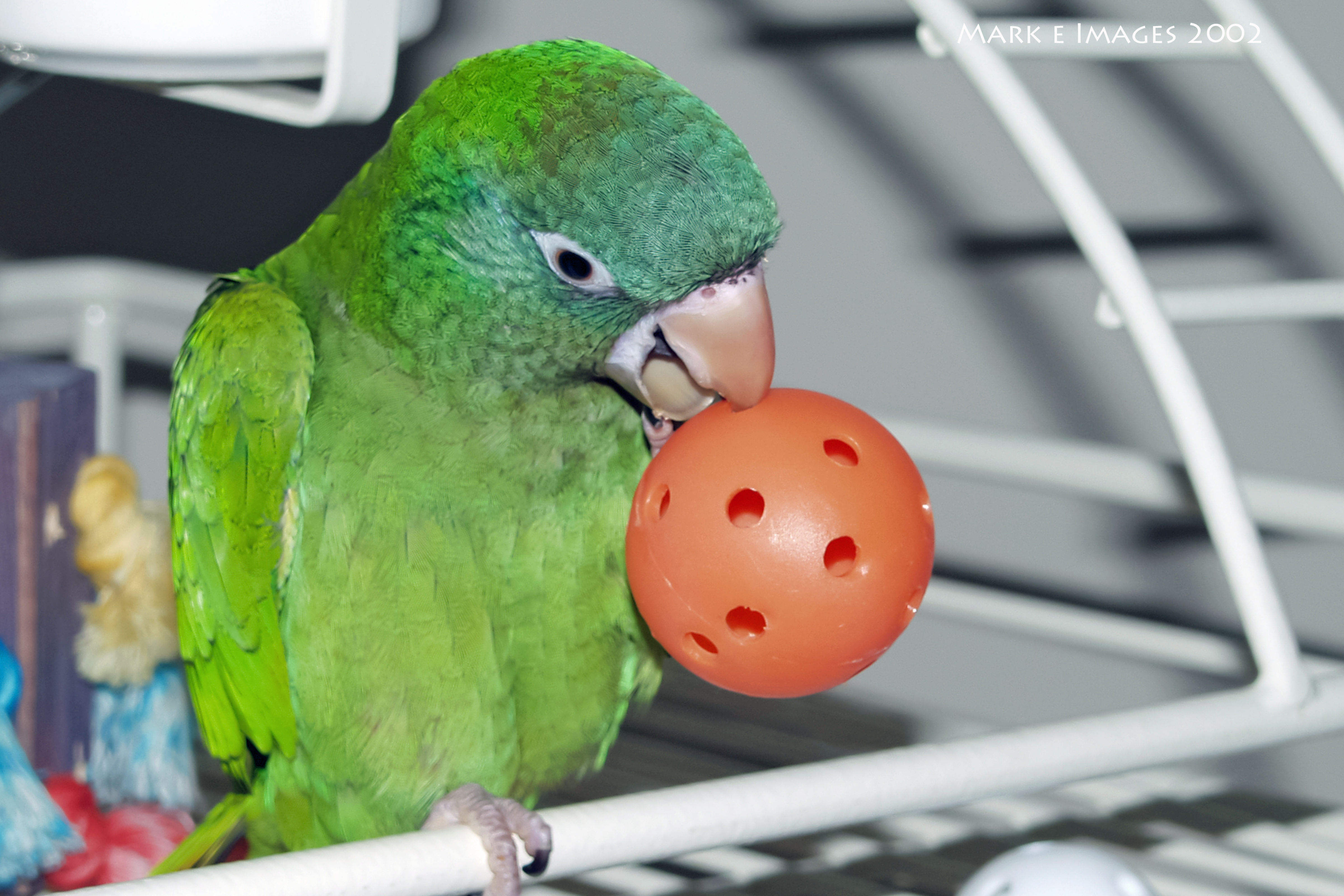 A pet Blue-crowned Parakeet (also known as Blue-crowned Conure and Sharp-tailed Conure) in Carmel, Indiana, USA.